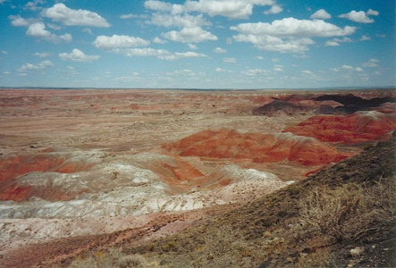 Painted Desert near Petrified Forest National Park, USA.